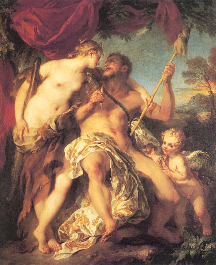 Heracles and Omphale